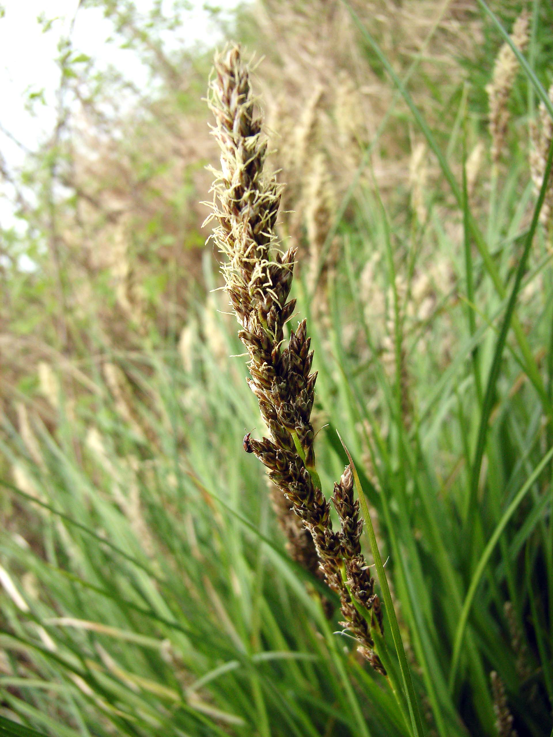 Rispen-Segge (Carex paniculata), Rispe (panicle), Nordwestdeutschland